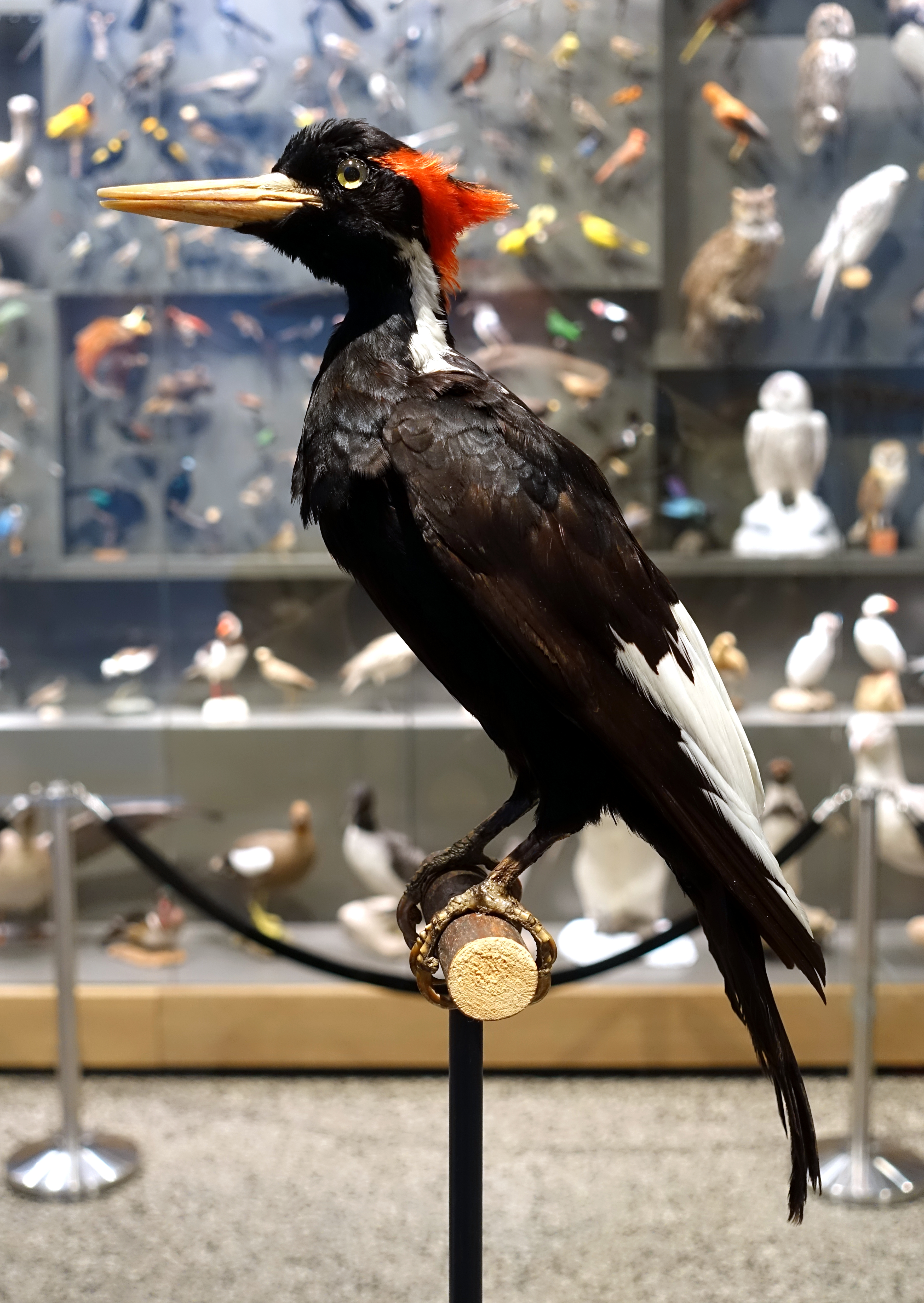 Exhibit in the Hessisches Landesmuseum Darmstadt - Darmstadt, Germany.